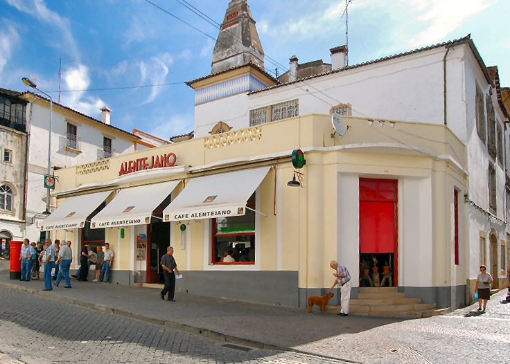 Portalegre_Municipality